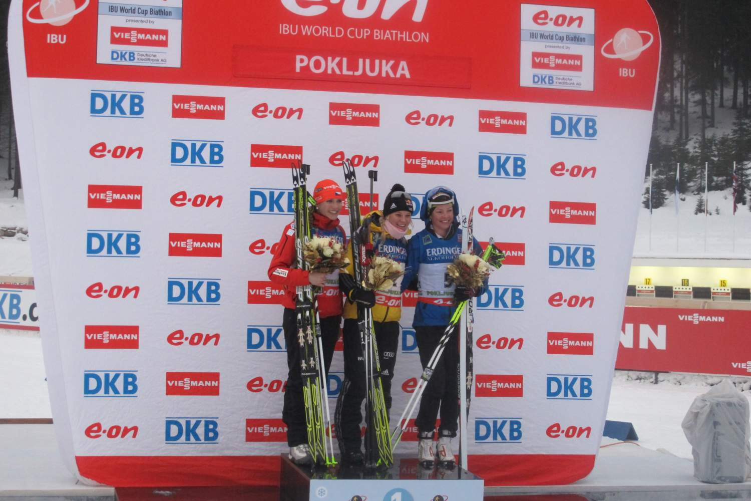 Pokljuka Biathlon World Cup